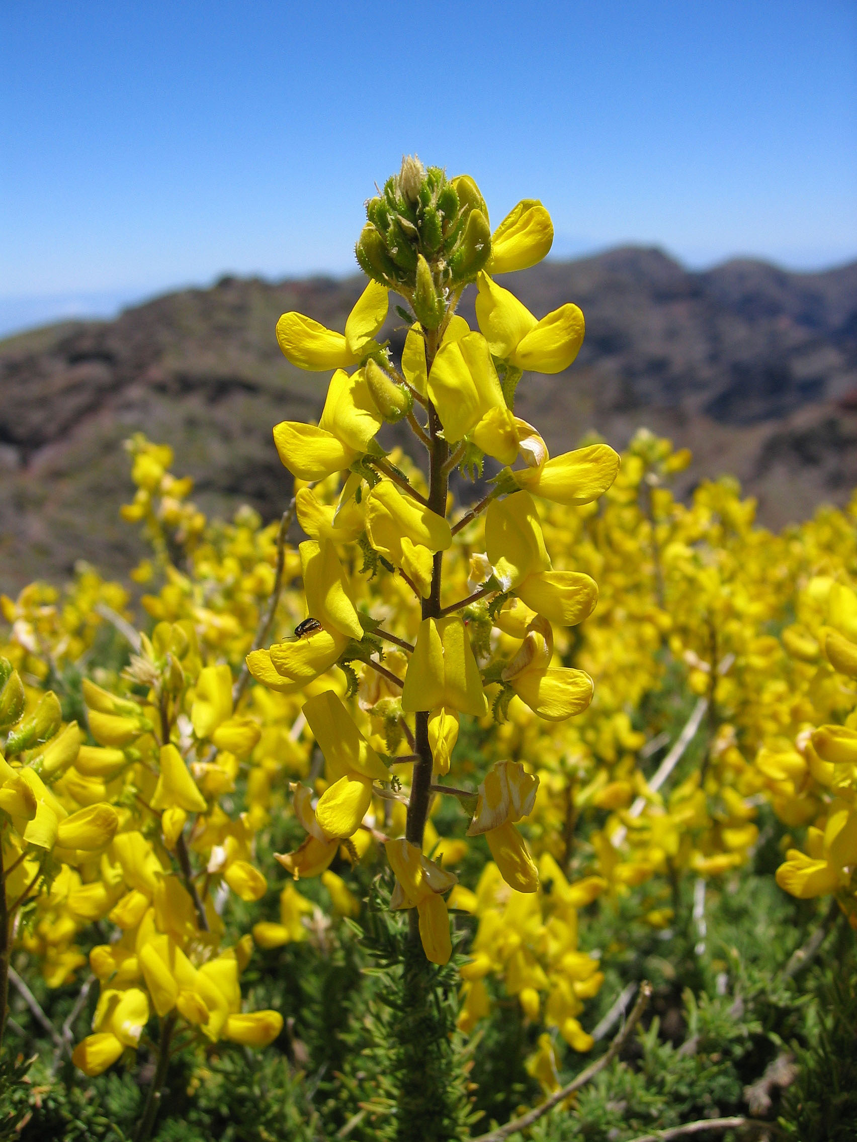 Adenocarpus viscosus, Near Fuente Nueva, La Palma, Spain